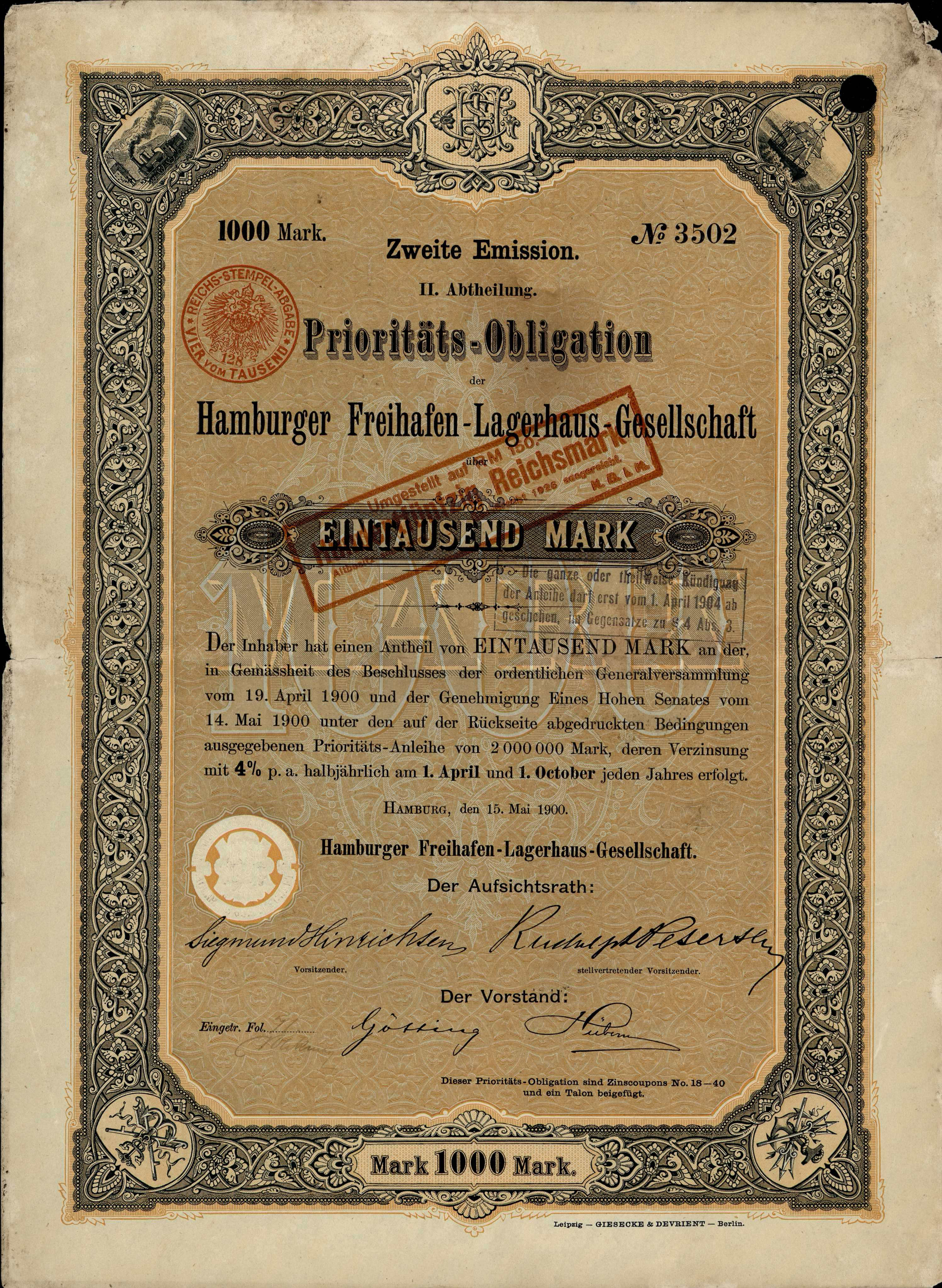 Bond of the Hamburger Freihafen-Lagerhaus-Gesellschaft, issued 15. May 1900